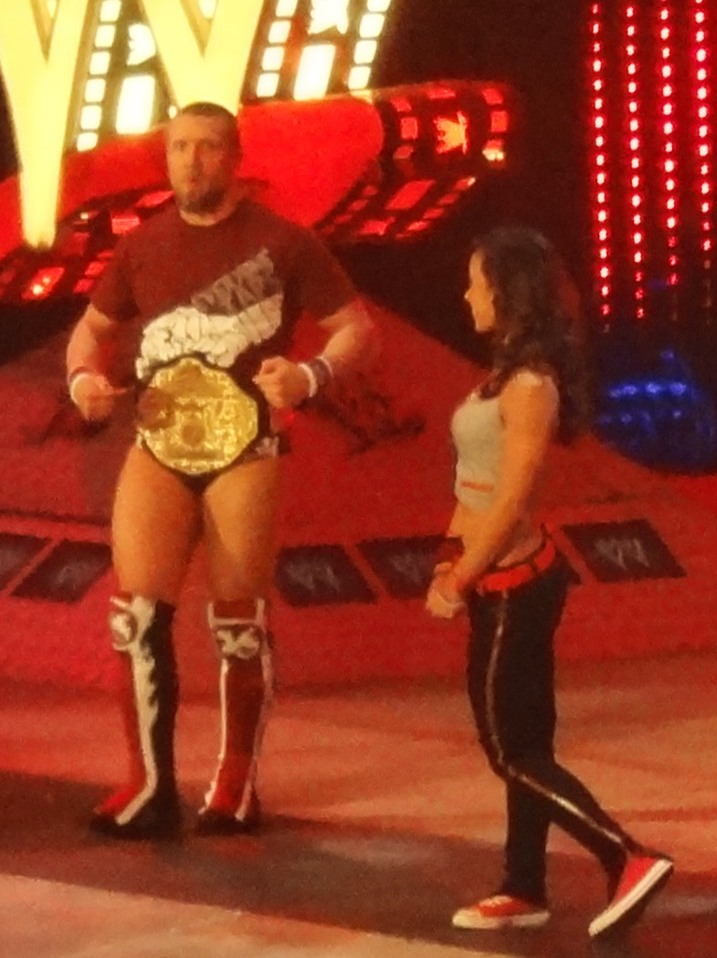 Professional wrestler Daniel Bryan wearing the World Heavyweight Championship belt with his on-screen girlfriend AJ